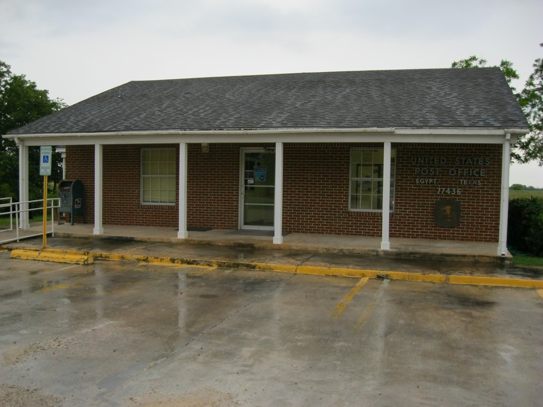 Photo shows the US Post Office on FM 1161 in Egypt, Wharton County, Texas. View is to the north-northeast.